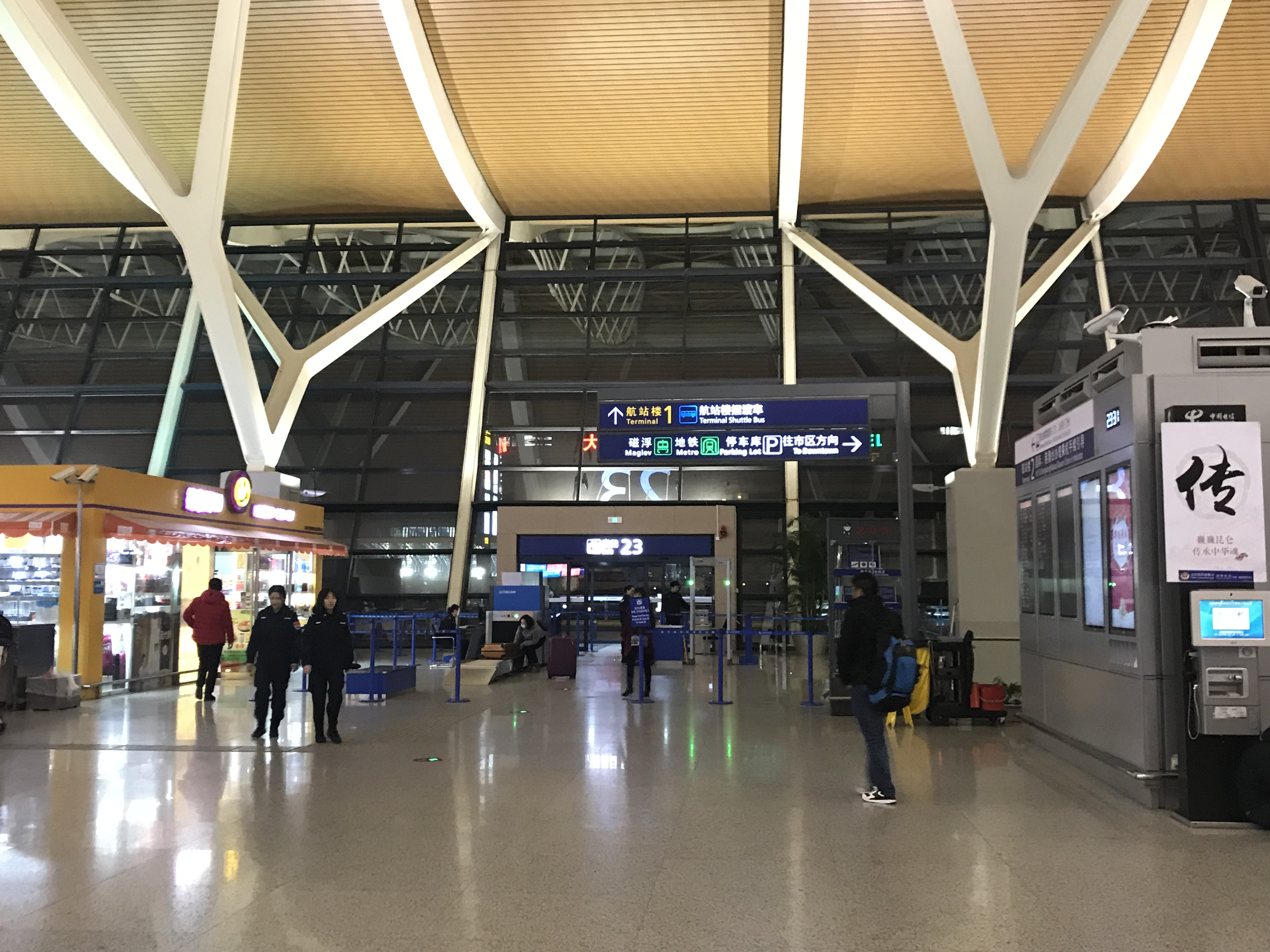 201801 Precheck at PVG T2